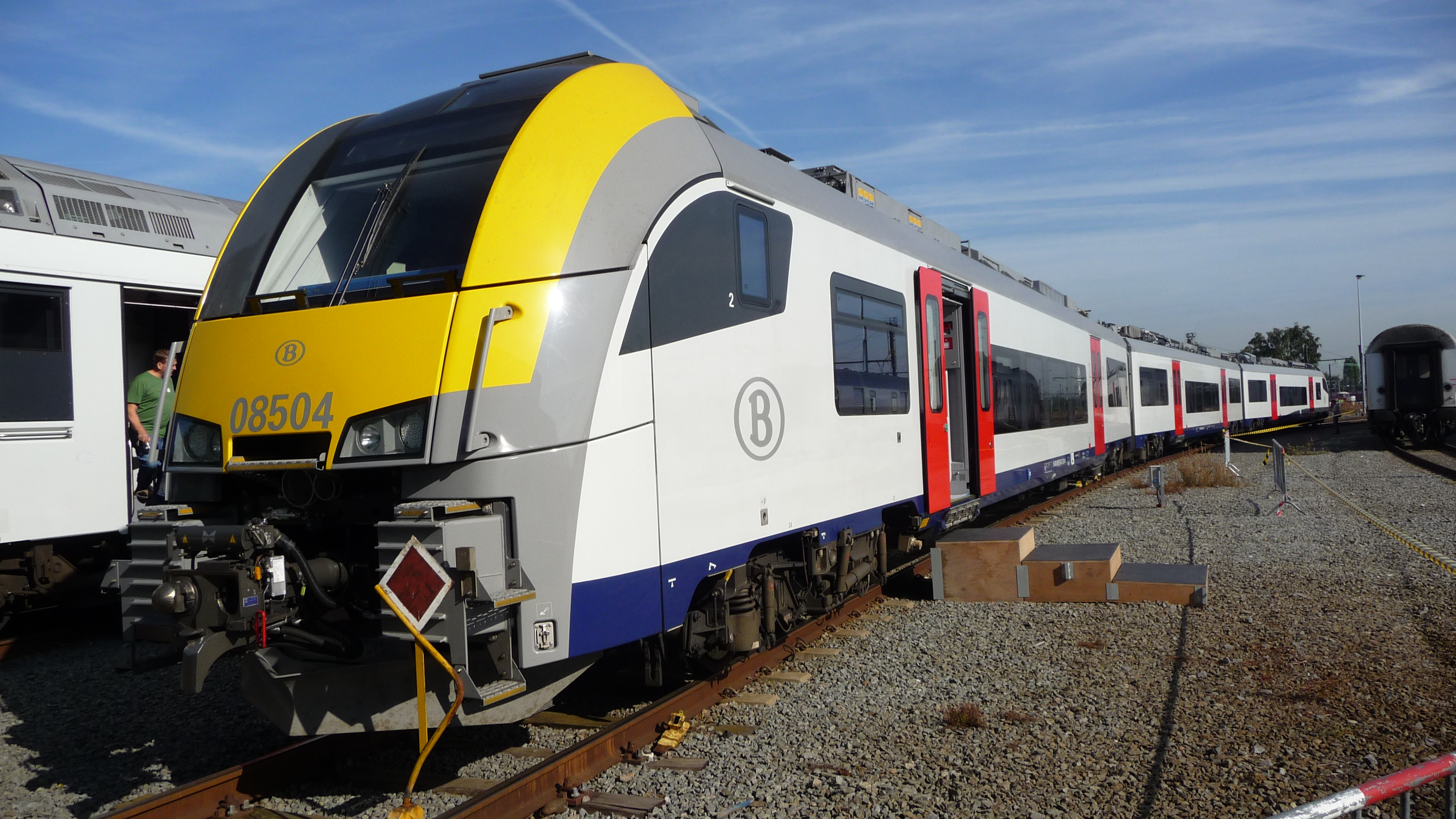 Siemens Desiro at Schaarbeek, Brussels, Belgium, 24 september 2011.